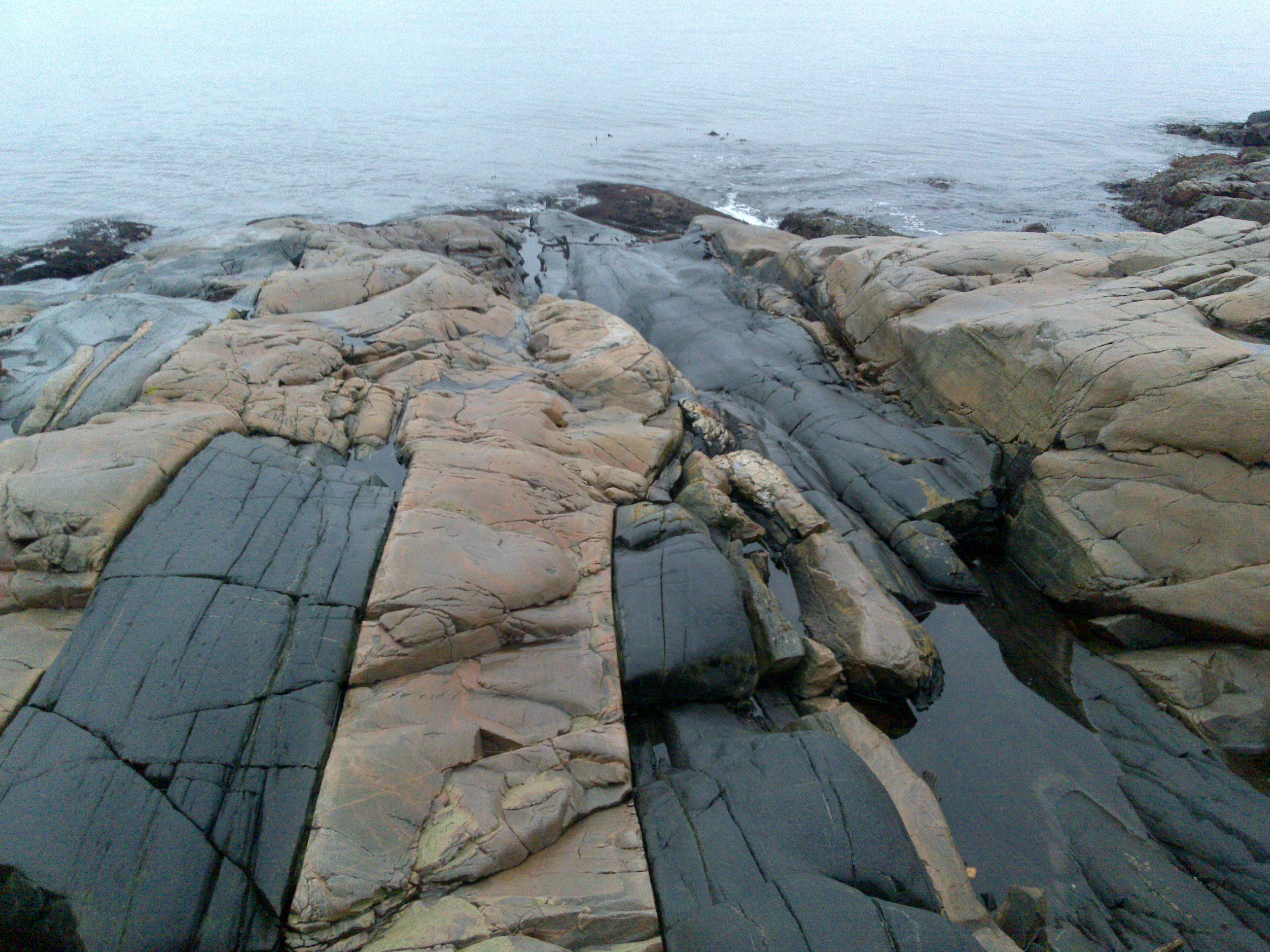 Precambrian rock (light) and intrusive amphibolite (dark) at the peninsula Hurum in Buskerud, Norway. Photo taken at Smithodden, mid-way between Ersvika and Sandbukta, southwest of Tofte, Hurum (Buskerud county).